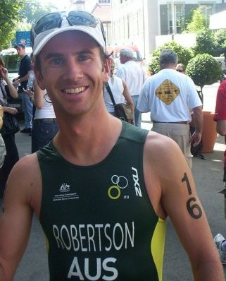 Peter John Robertson (triathlete) after a race, it was taken in 2006 at the ITU world Championships in Lausanne, Switzerland.